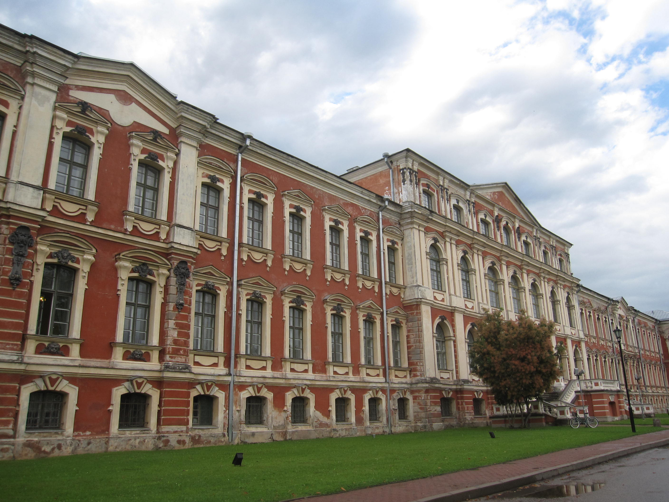 Jelgava Palace viewed from the Lielupe riverside